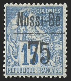 75 centimes postage stamp of the French colony Nossi-Be, overprint on a French Colony 15c stamp